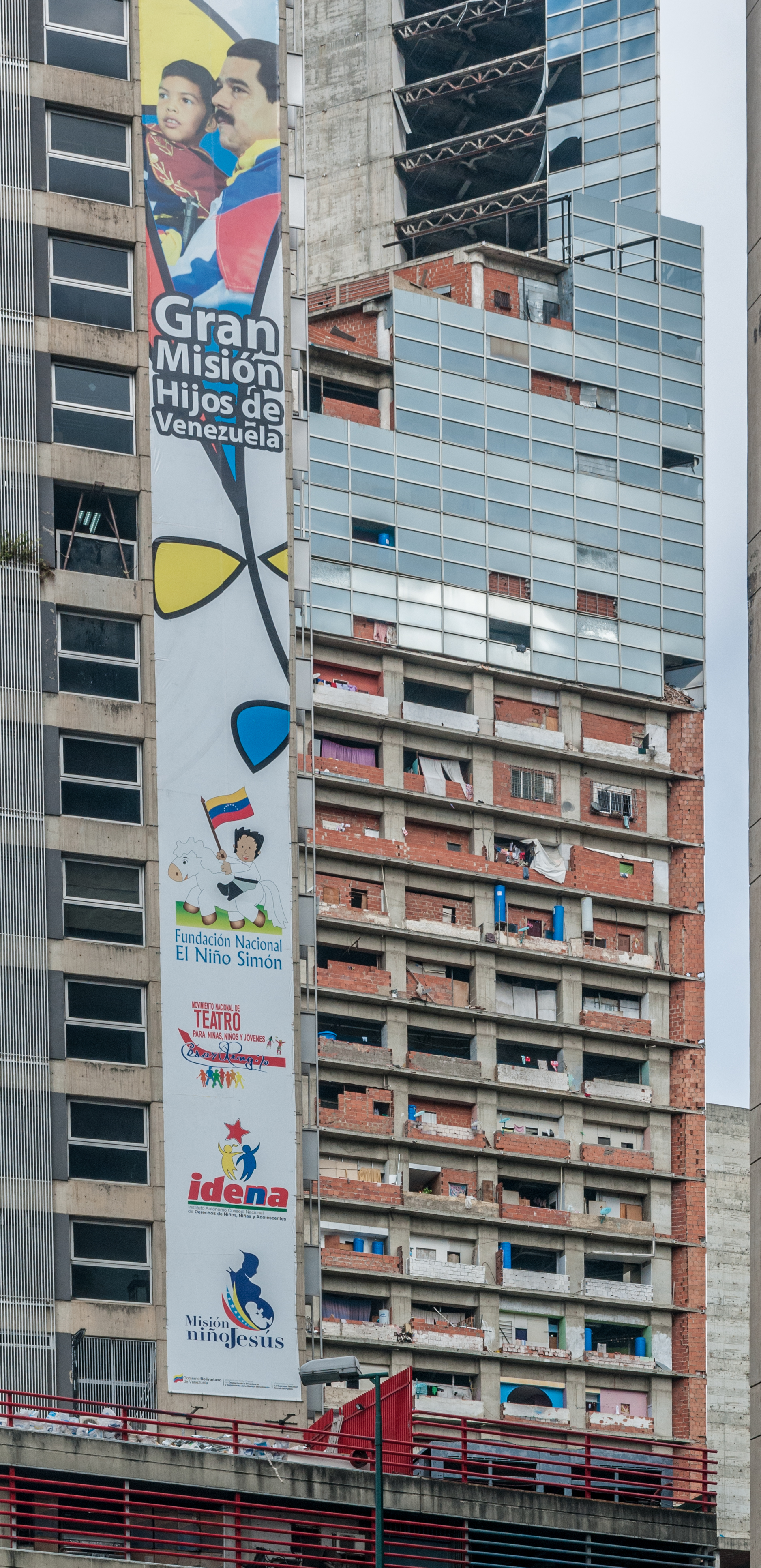 Vertical Slums in Caracas